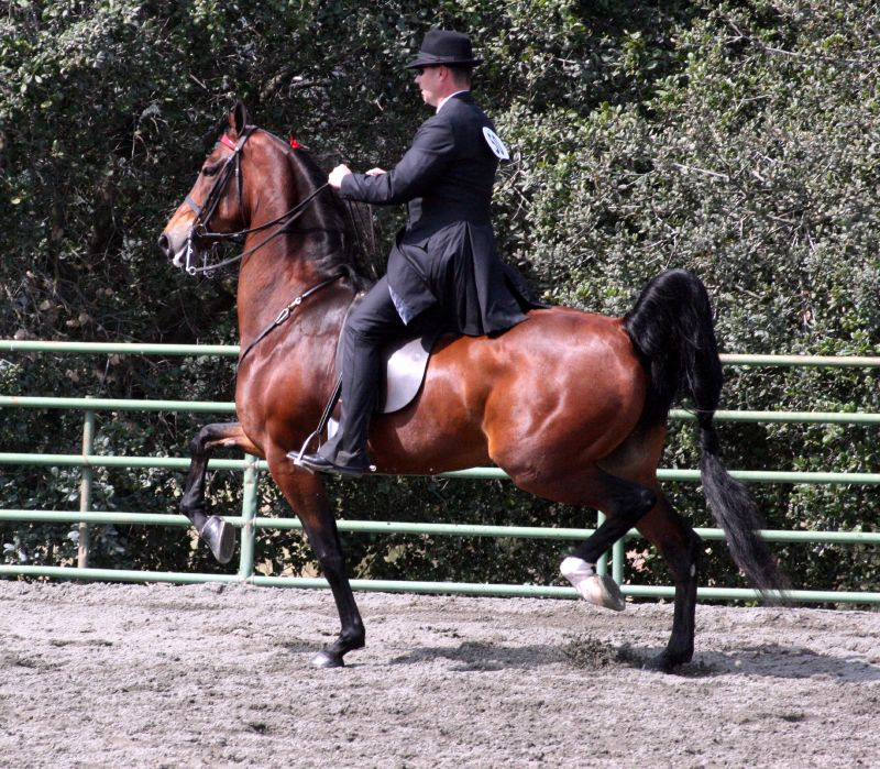 American Saddlebred